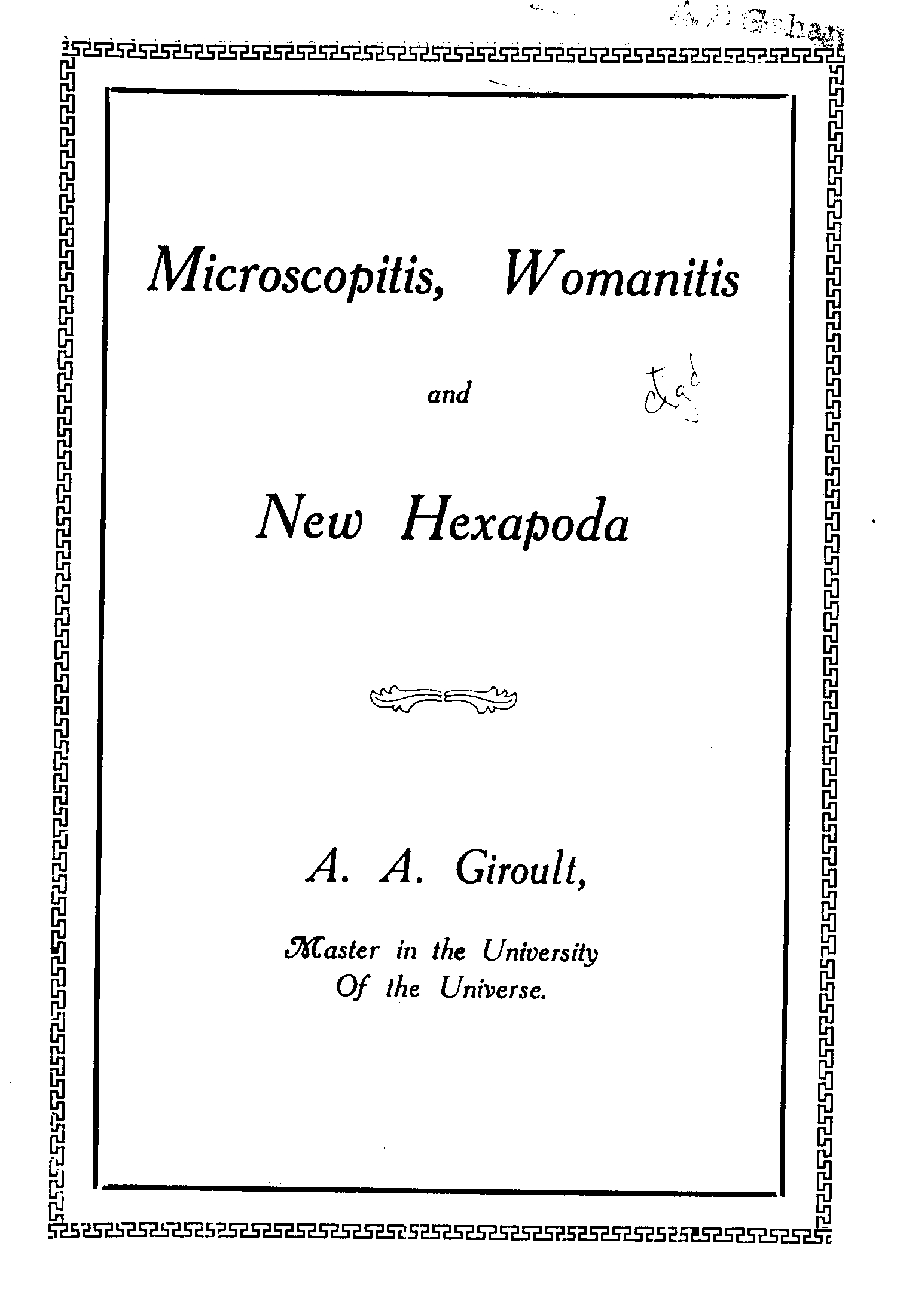 Title page of Microscopitis, Womanitis and New Hexapoda by Alexandre Arsène Girault, 1923